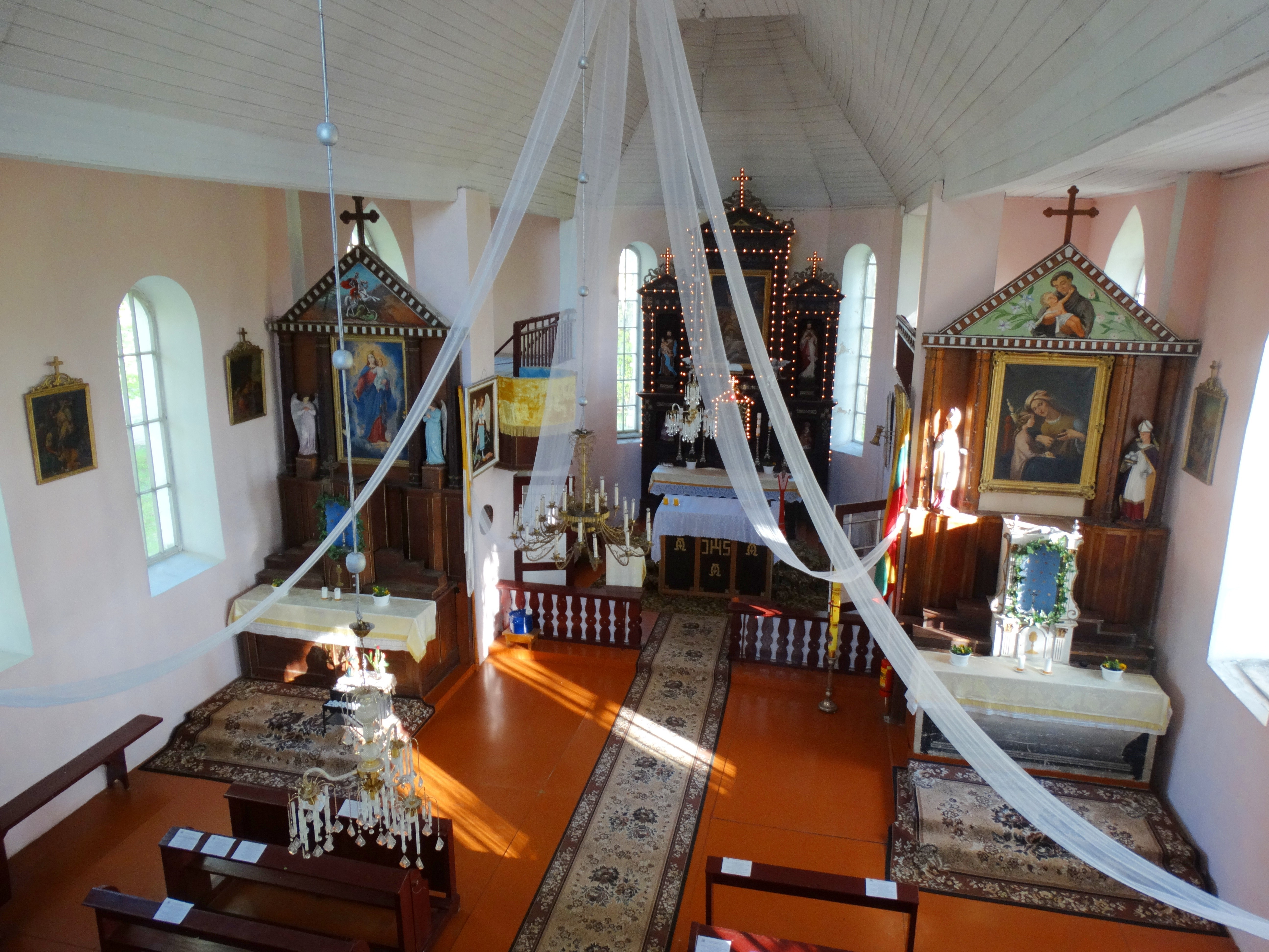 Palonai, Catholic Church, Radviliškis District, Lithuania